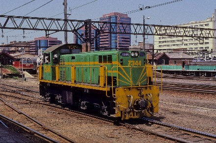 Green 7344 acts as shunter at Sydney Terminal.